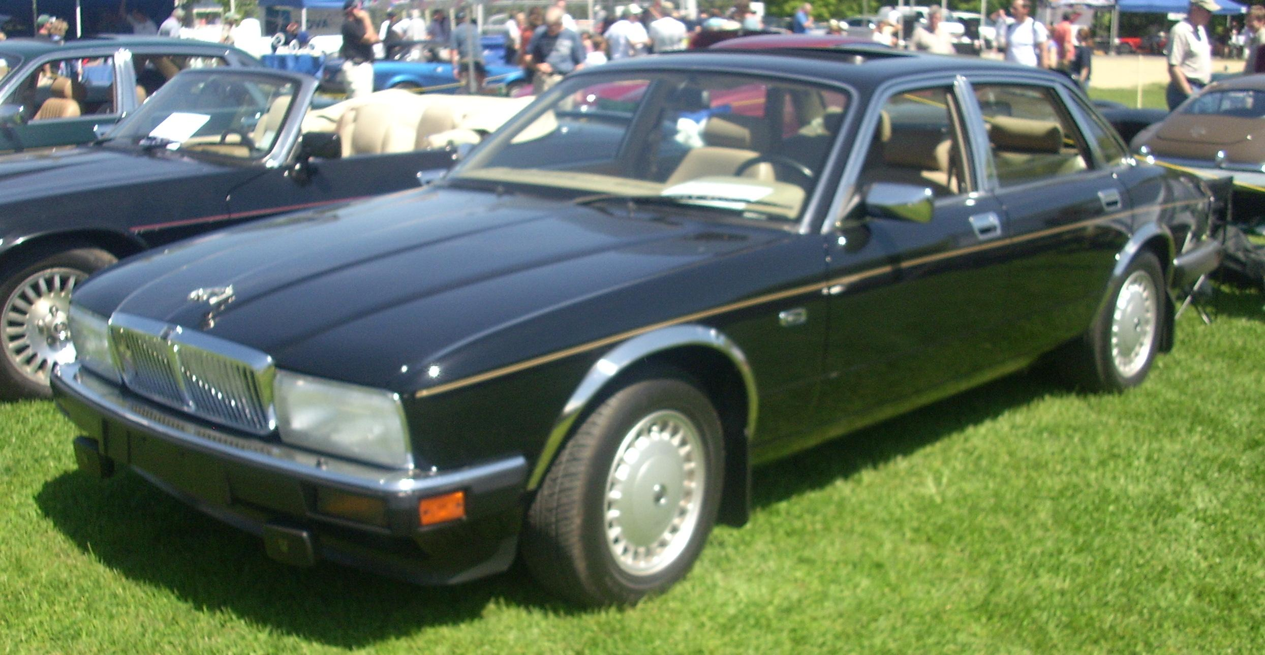 1991 Jaguar XJ photographed at the 2008 Hudson British Car Show.